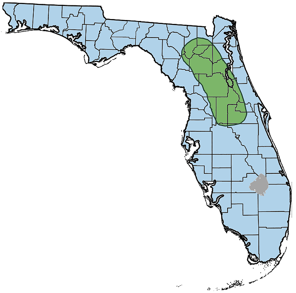 Depiction of Orange Island during the Eocene through early Miocene. Origin: Edward J. Petuch, Charles Roberts